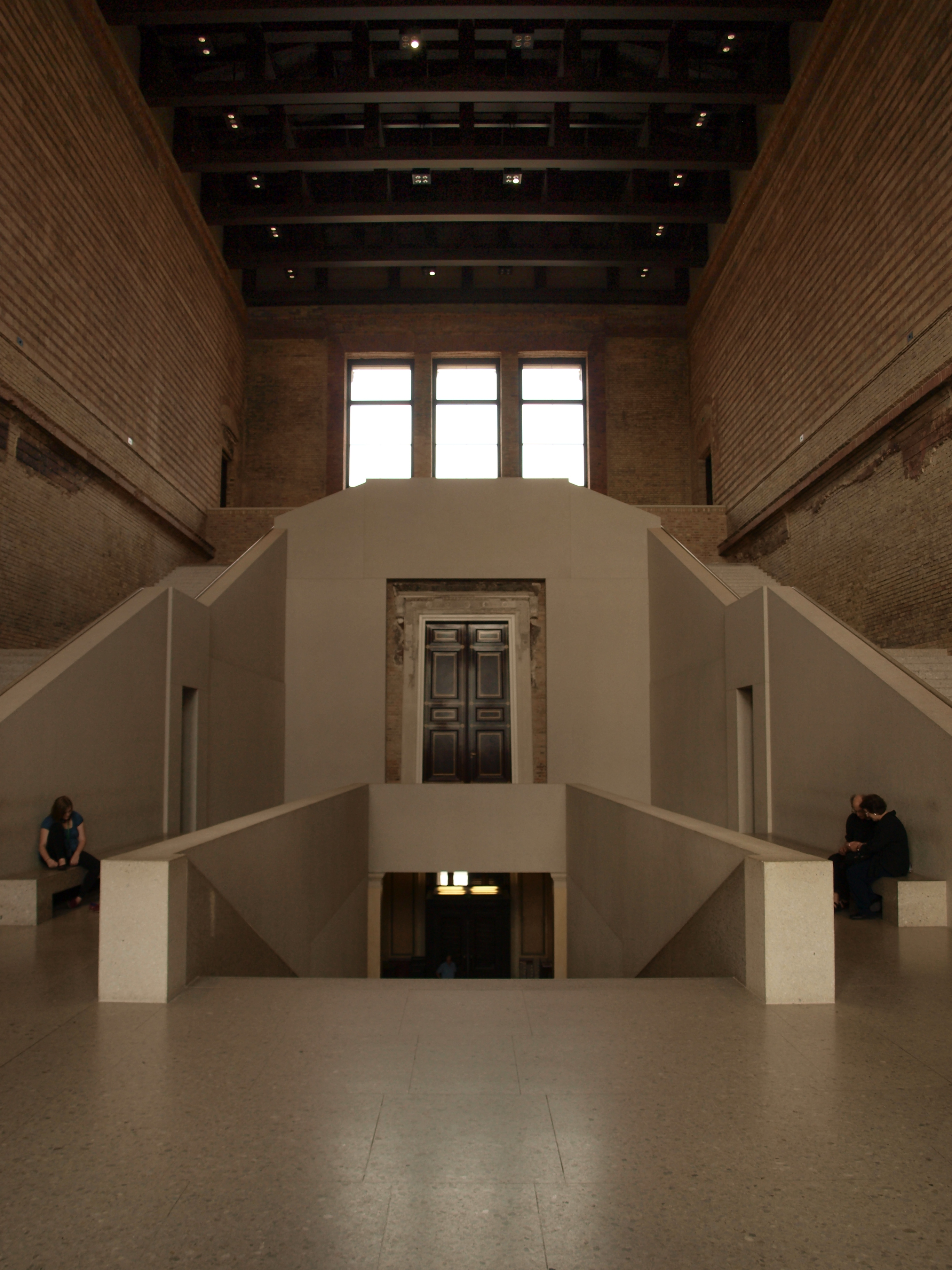 This is a photograph of an architectural monument.